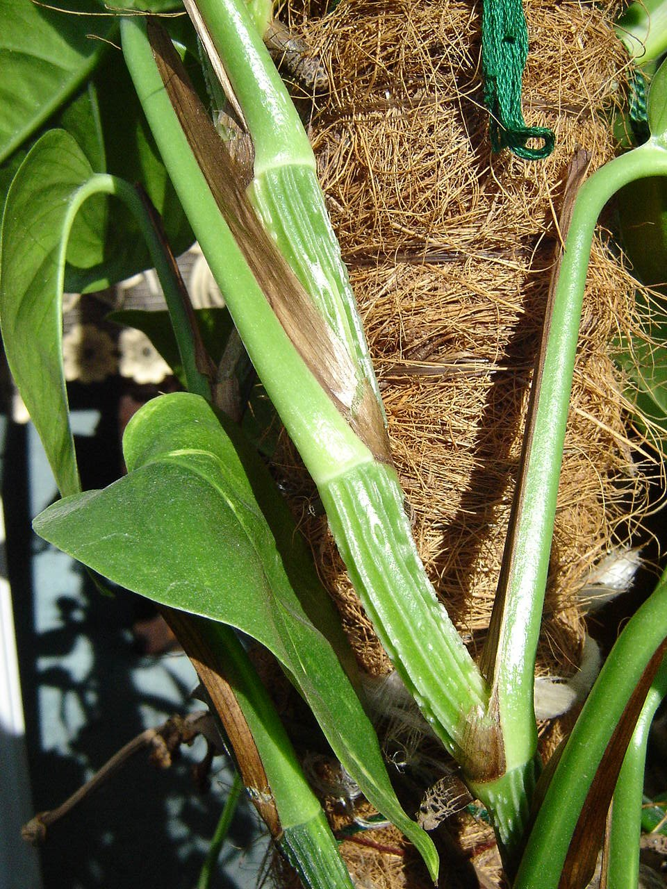 The ribbed stem of Epipremnum aureum